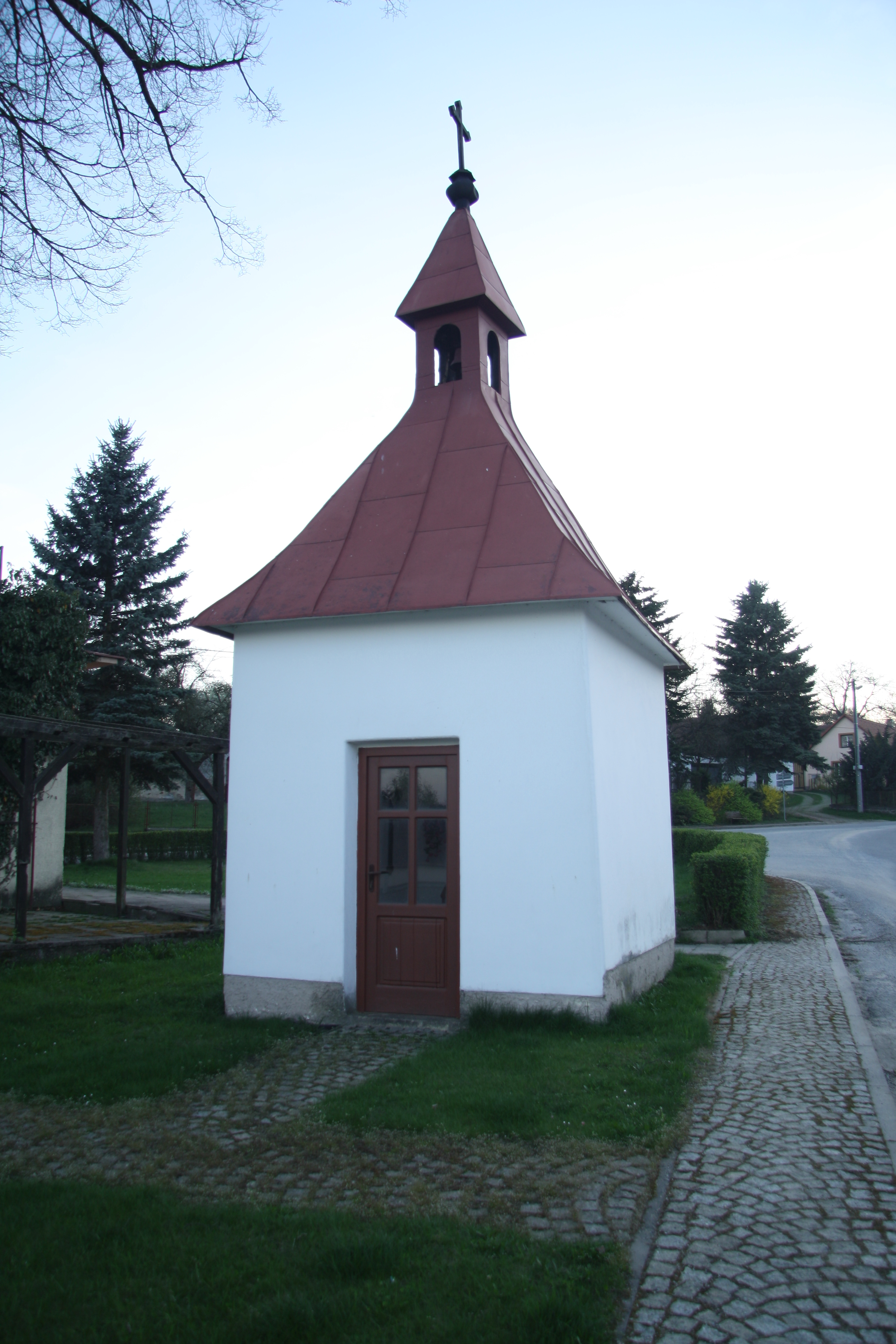 Chapel in Mysletice, Jihlava District.